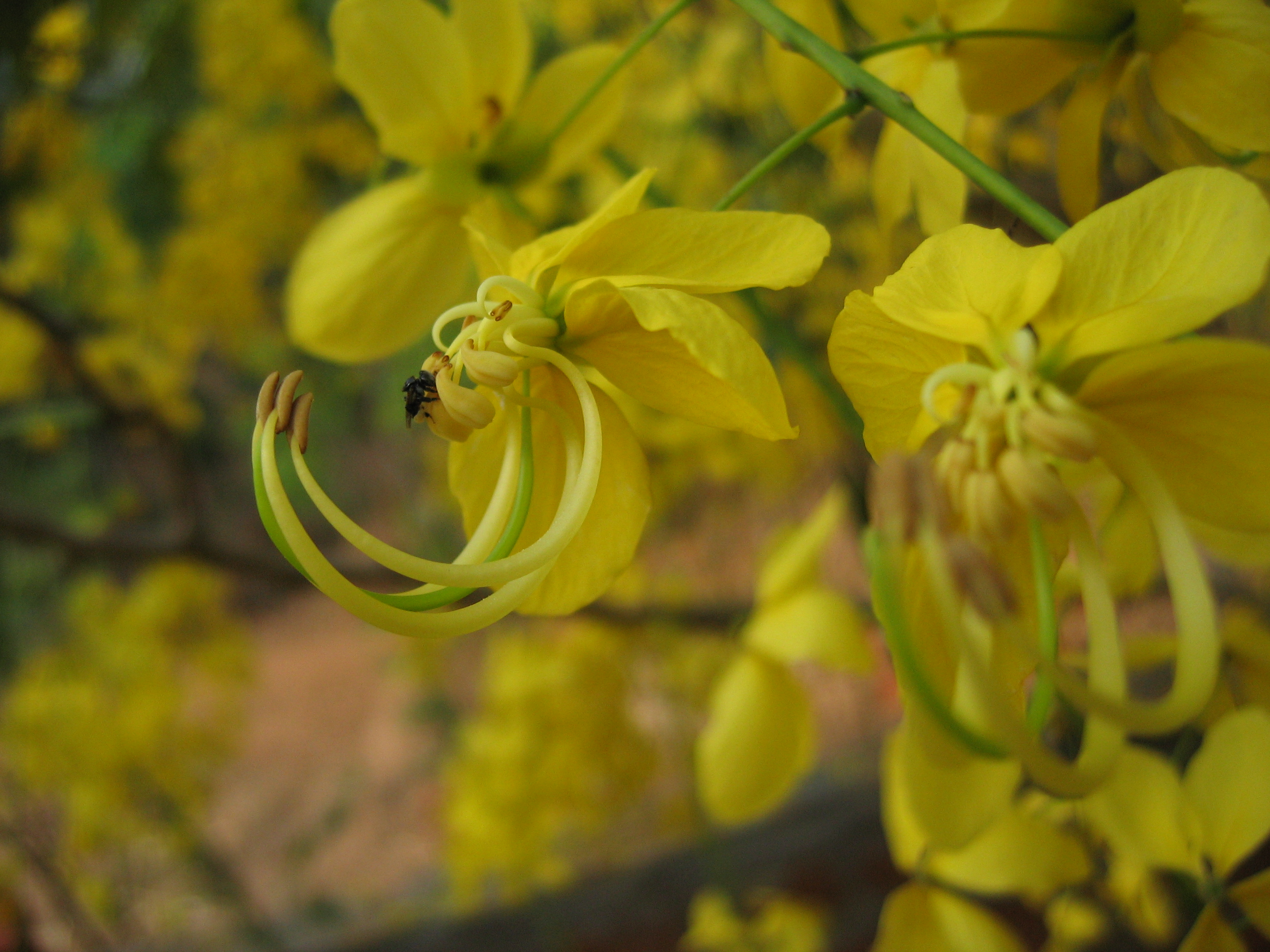 Cassia fistula